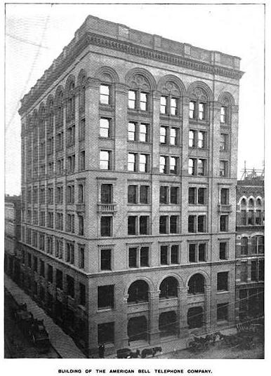 American Bell Telephone building, Boston